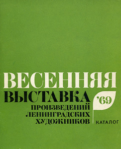 Cover of the catalog of Spring Exhibition of works by Leningrad artists of 1969